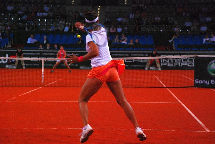 Li Na returning at the 2010 Stuttgart Porsche Grand Prix